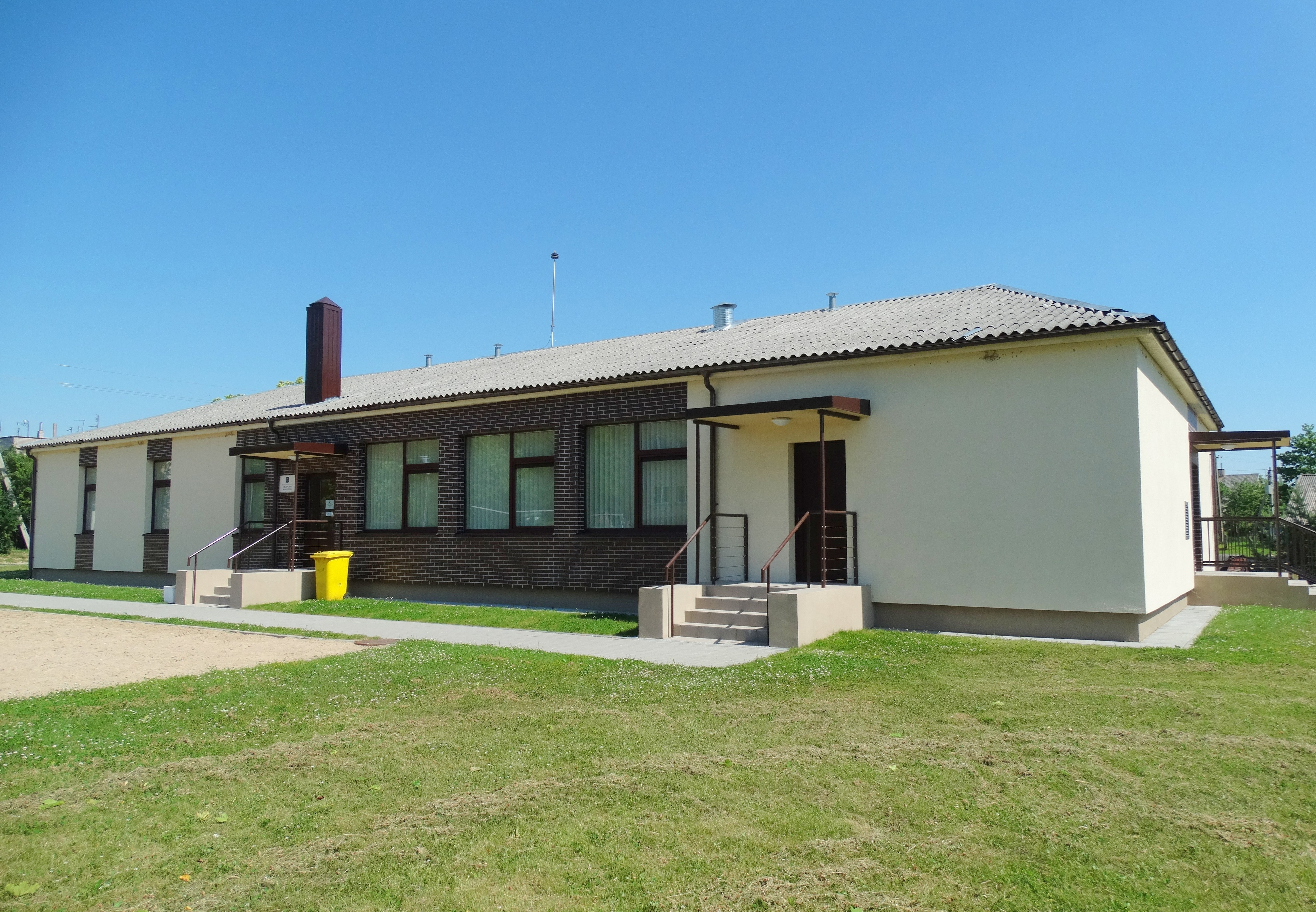 Library in Medingėnai, Rietavas Municipality, Lithuania